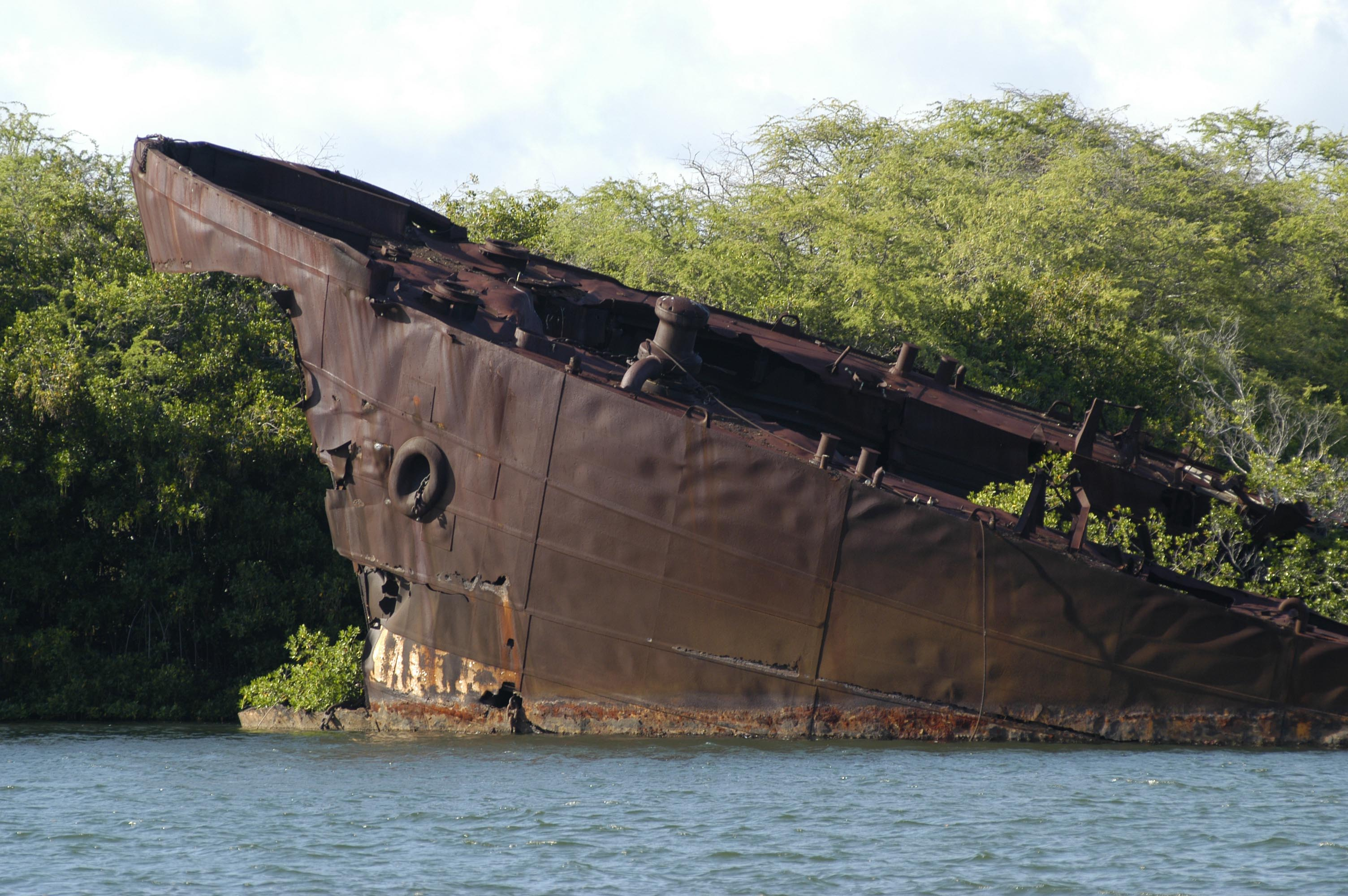 Pearl Harbor, Hawaii (May 21, 2003) -- 59 years after explosions rang out in Pearl Harbor’s West Loch, a memorial of disaster reminds all of a quiet Sunday afternoon on May 21, 1944. More than two dozen ammunition ships moored there preparing for an attack on Saipan when there was a sudden explosion which caused a deadly chain reaction. The total casualties from the tragedy were 163 dead and 396 injured and eight ships were also lost. U.S. Navy photo by Photographer's Mate 2nd Class Dennis Cantrell. (RELEASED)